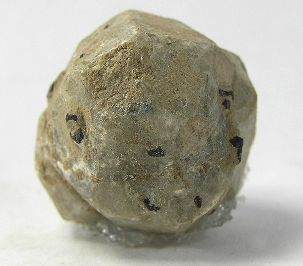 Leucite Locality: Mt. Vesuvius, Somma-Vesuvius Complex, Naples Province, Campania, Italy (Locality at ) Size: 2.4 x 2.2 x 2.2 cm. A fine crystal of this potassium aluminum silicate from the TYPE LOCALITY, the volcanic Mt. Vesuvius (leucites form from cooling lava, taking on this trapezohedral form). Yes, the same Mt. Vesuvius that formed this leucite crystal famously destroyed Pompeii in 79 AD.